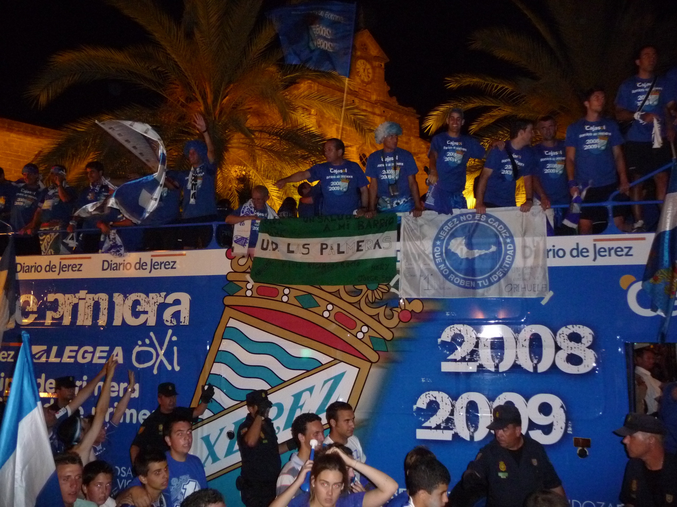 Celebrating getting in La Liga (primera division) in bus